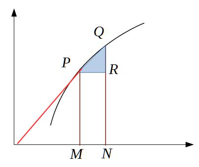 Pascal's Infinitesimal Triangle